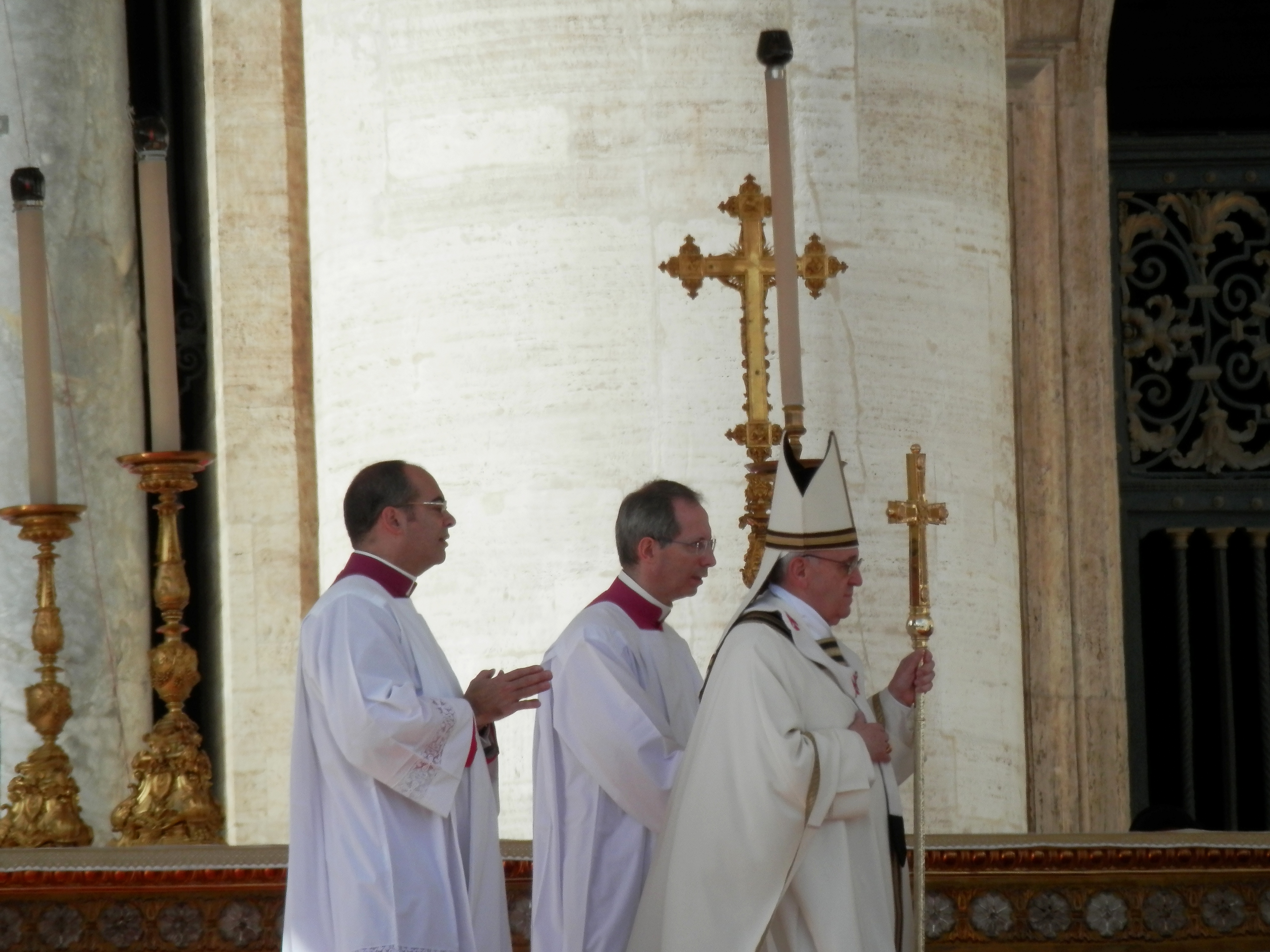 Inauguration of Pope's Francis Ministry, 19 March 2013